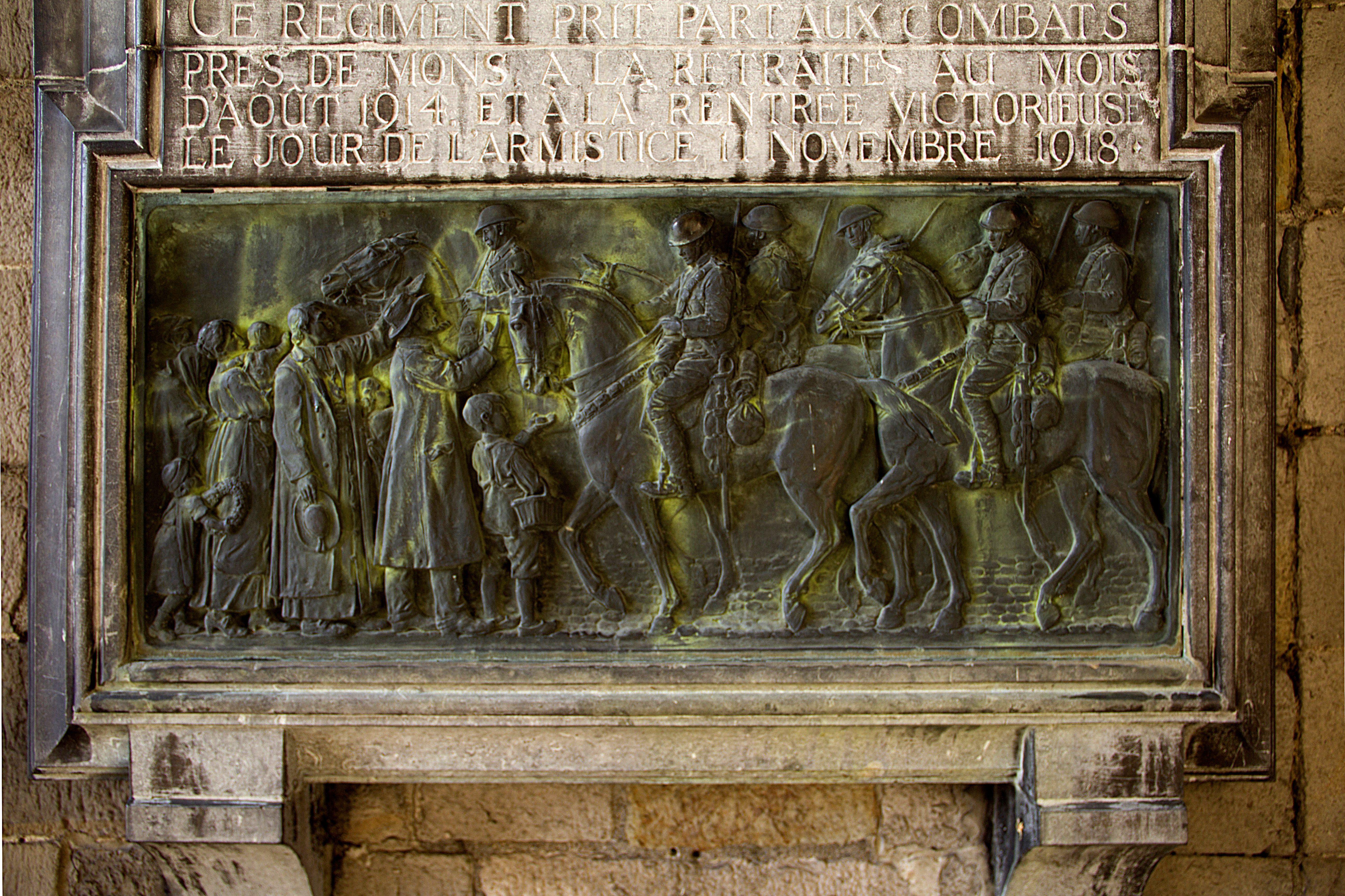 Mons (Belgium), Memorial dedicated to the regiment of the British Expeditionary Force who took part in the fighting sequence near Mons in August 1914 and the fighting that preceded his victorious return in the same city on the 11 November 1918.